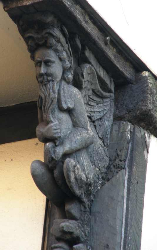 One of seven a 16th century wooden corbels supporting a jettied floor of a former coaching inn at 25 Magdalene Street, Cambridge. The bracket is in the form of a satyr, showing that the inn was also a brothel. The building is mid-16th-century and was originally the Cross Keys Inn, the largest of five inns that used to be in Magdalene Street.